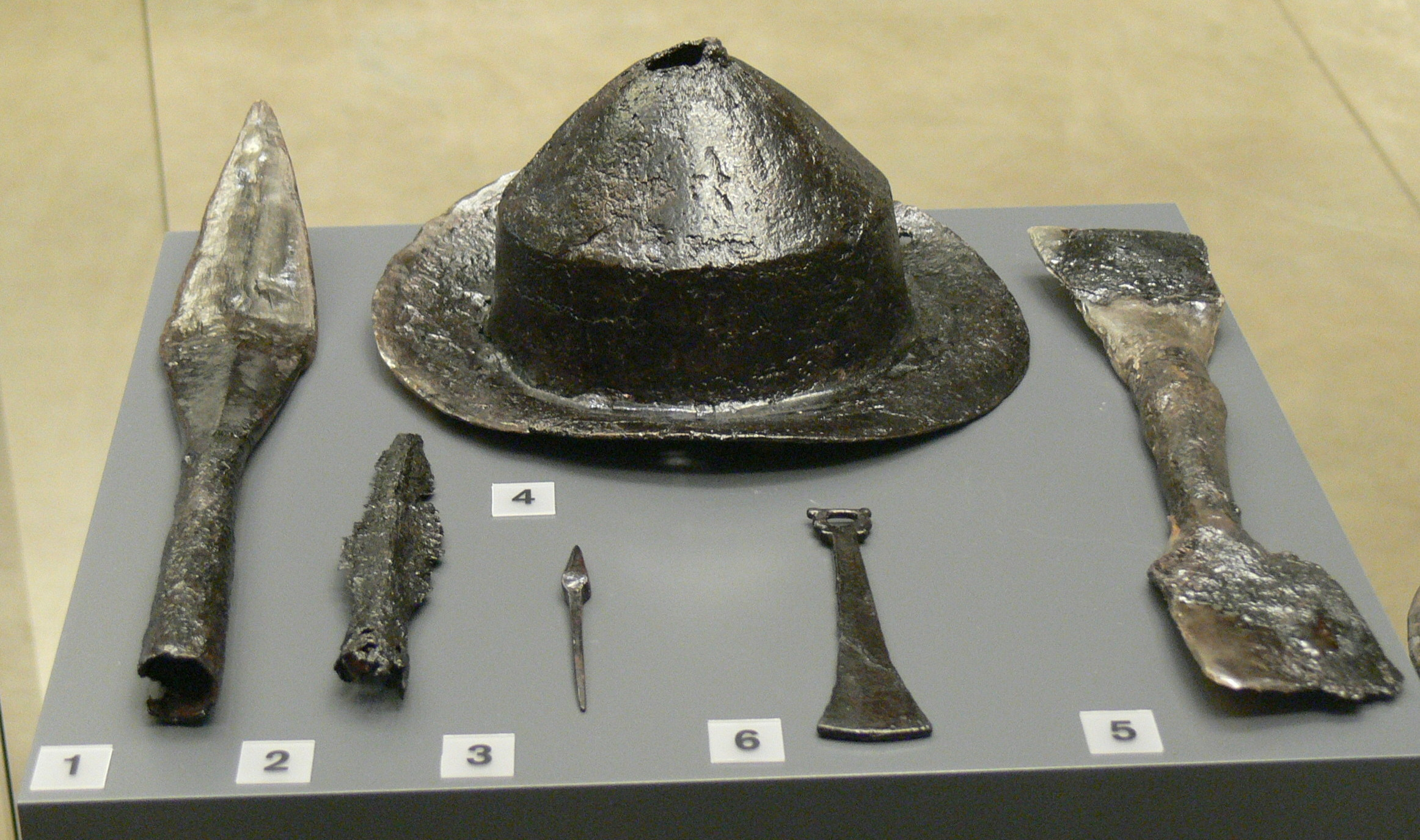 Celtic Museum Manching ( Bavaria ). Exhibition "Rome´s unknown borders": Vandal iron shield boss and spear tips ( 3rd/4th century AD ), from Zalau - "Dealul Lupului ( District Museum, Zalau ).